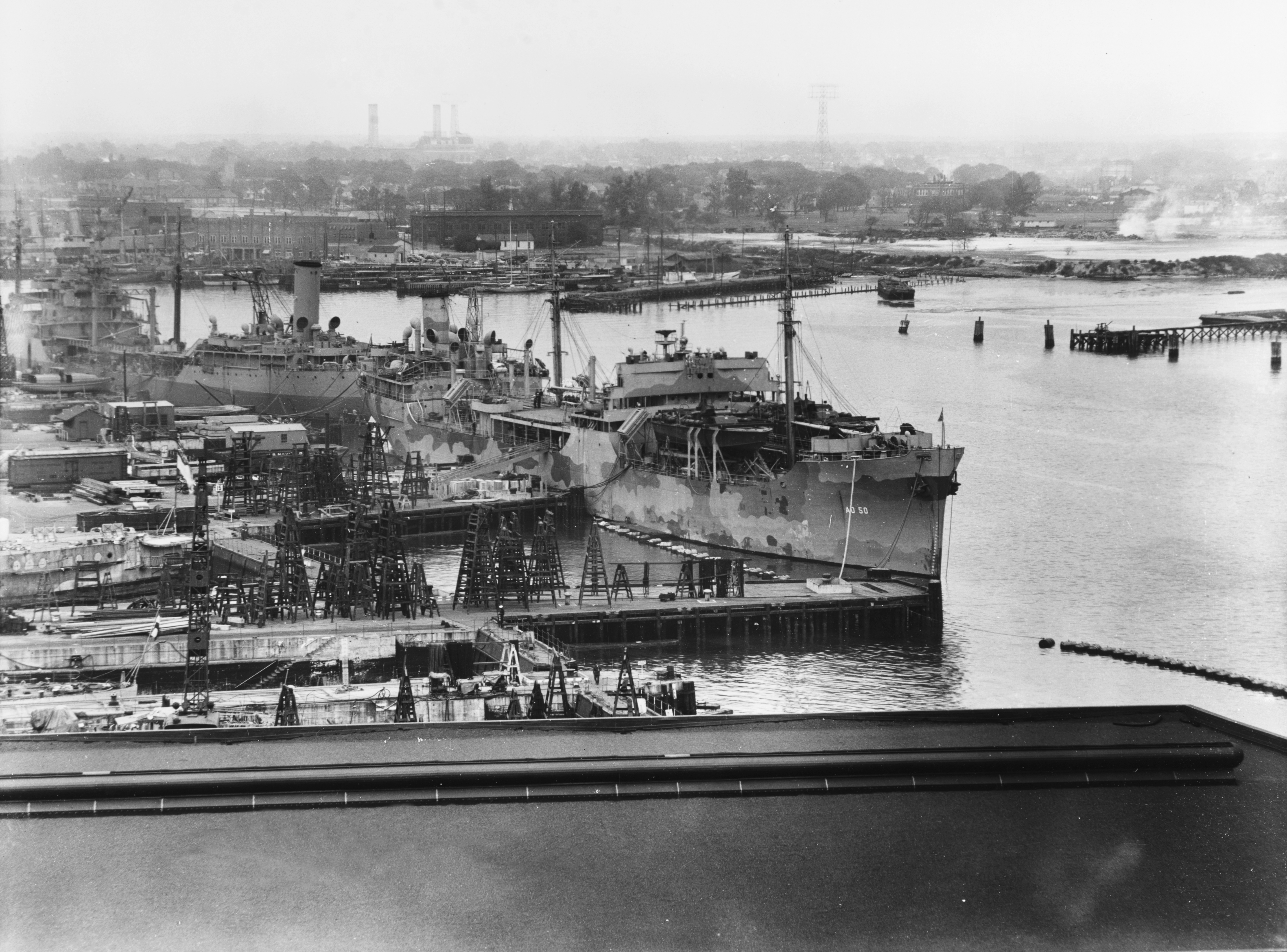 The U.S. Navy fleet oiler USS Tallulah (AO-50) at Norfolk Naval Shipyard, Virginia (USA), 10 October 1942. She has PT-111 and PT-112 loaded on her forward deck. She appears to be painted in Camouflage Measure 15. Another oiler, unidentified, is astern of her. The British battleship HMS Queen Elzabeth and another foreign warship are in the dry docks in the background at extreme left. Also note the refrigerated boxcar at extreme left center. Tallulah got underway for New York on 17 October 1942, eveantually reaching Nouméa, New Caledonia, on 12 December. The PT boats later operated around Guadalcanal and both were sunk off Cape Esperance, PT-111 on 1 February 1943 and PT-112 on 11 January 1943.